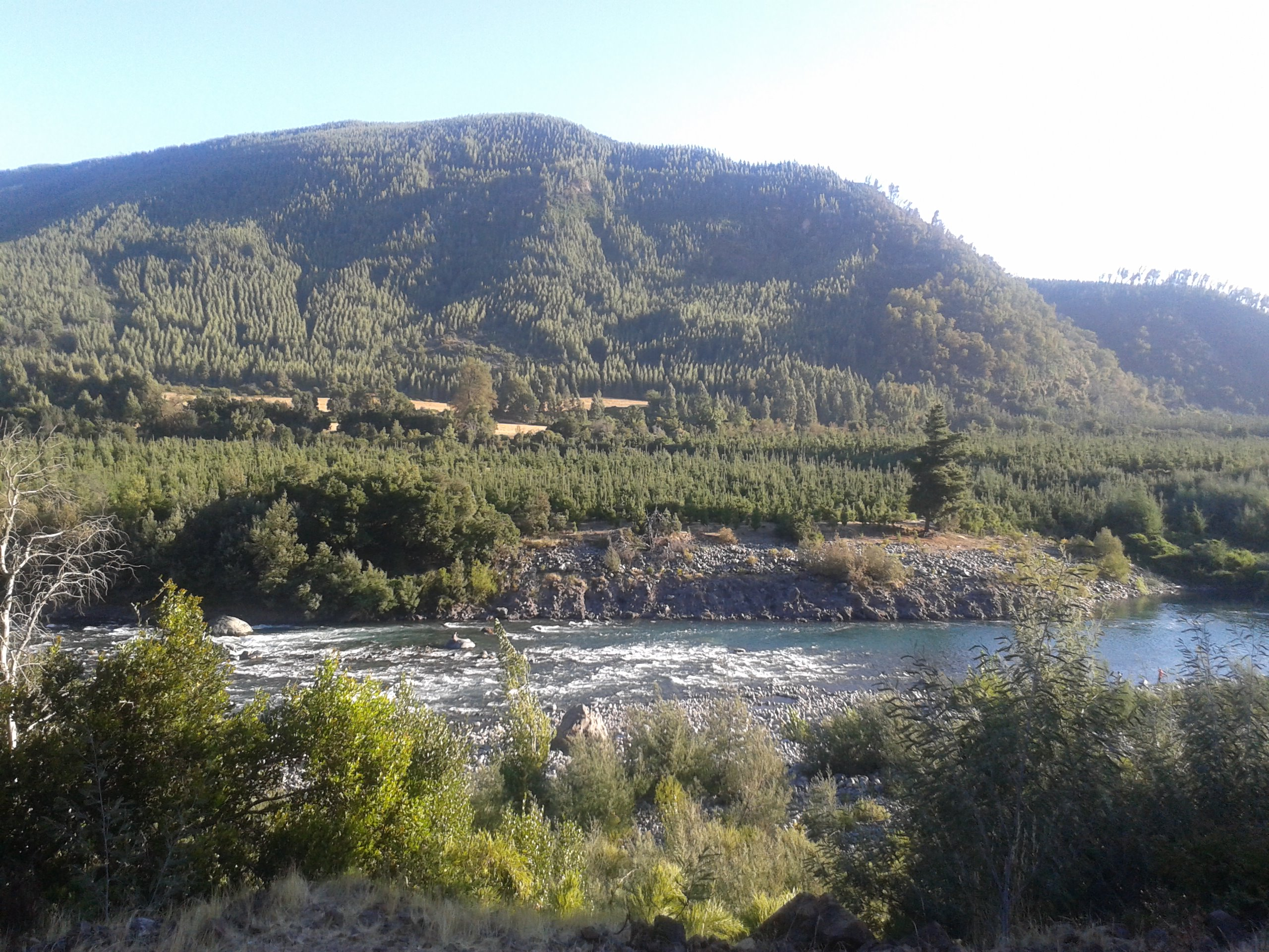 A roadside river in westernmost central Chile, in the comune of San Fabián